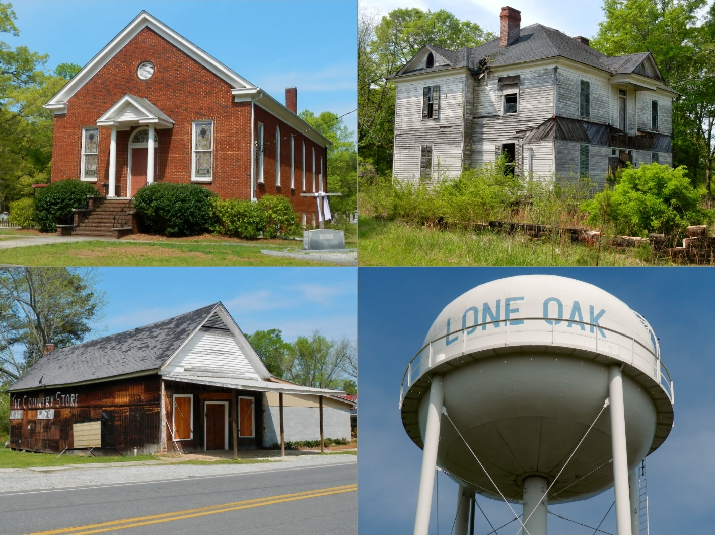 This is a series of photos that I shot of Lone Oak, Georgia and personally assembled into this photo collage.